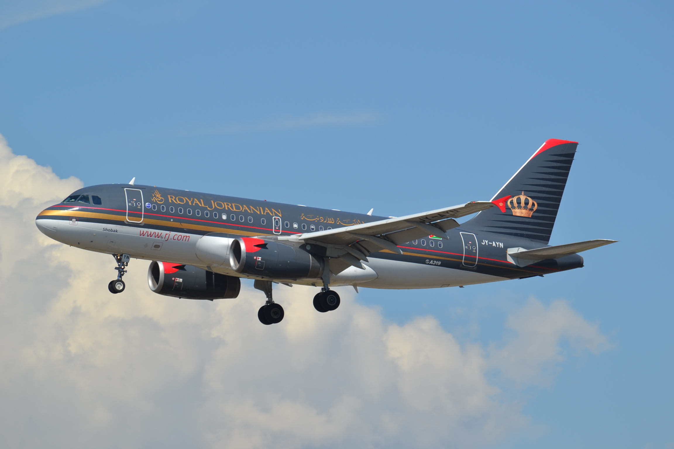 Airbus A319 of Royal Jordanian Airlines at Frankfurt-FRA,Germany,17/08/13.